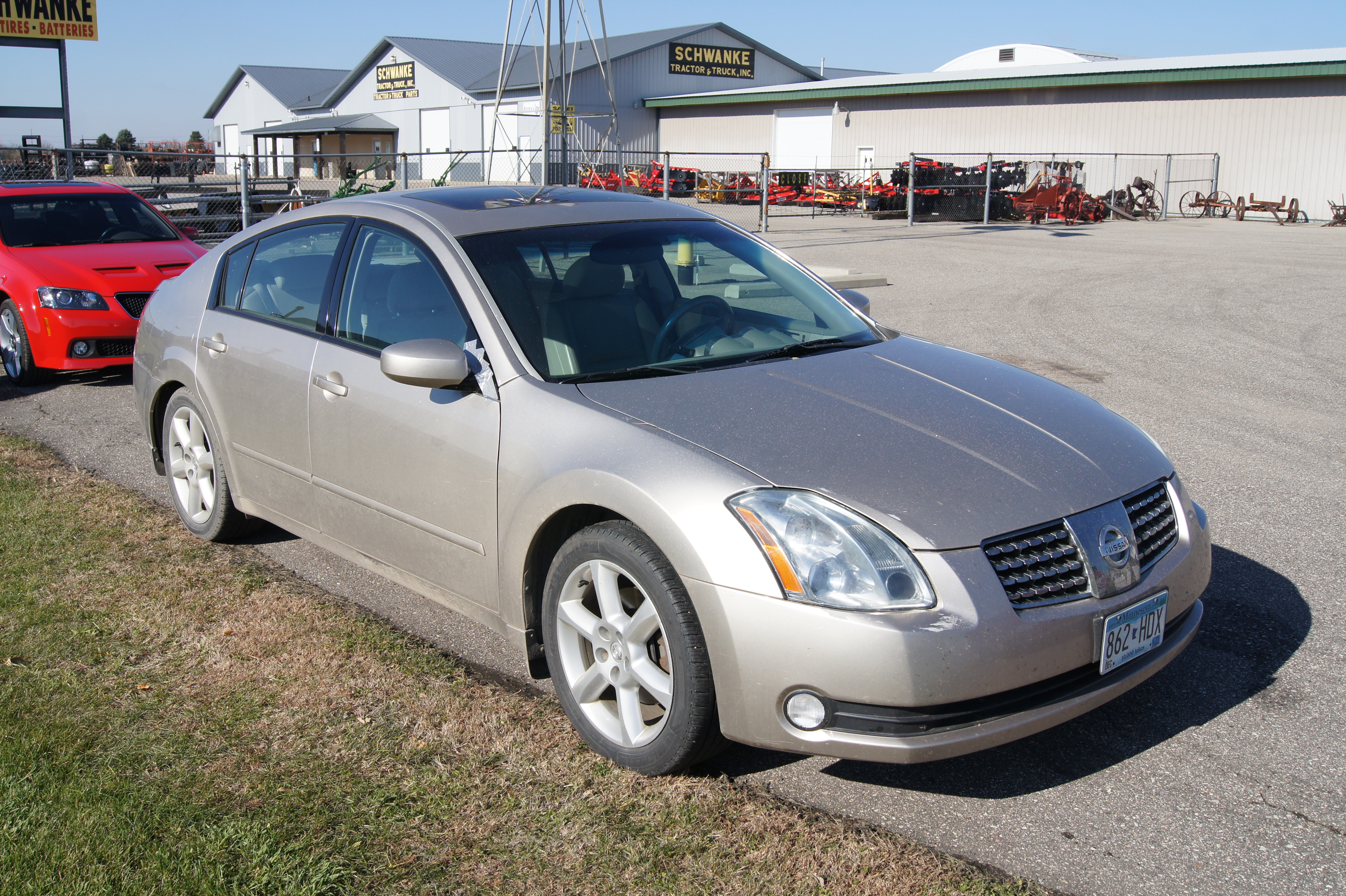 Car Buff's Breakfast November 2013 Kandi Entertainment Center Willmar Minnesota Click link below for more car pictures: The 2013 Car Buffs' Breakfast season went out with with a bang. Nice weather, visitors from the Wright County Car Club and a late start to the Deer Hunting Season helped push attendance over 80 when the club was expecting 60. Kandi Entertainment Center did an admirable job coping with the extra people. Attendees had an opportunity to see Mr. Theis's collection of Motorcycles and exciting Rat Rods. Then the Schwanke Tractor, Truck & Car Museum opened for viewing another great collection.